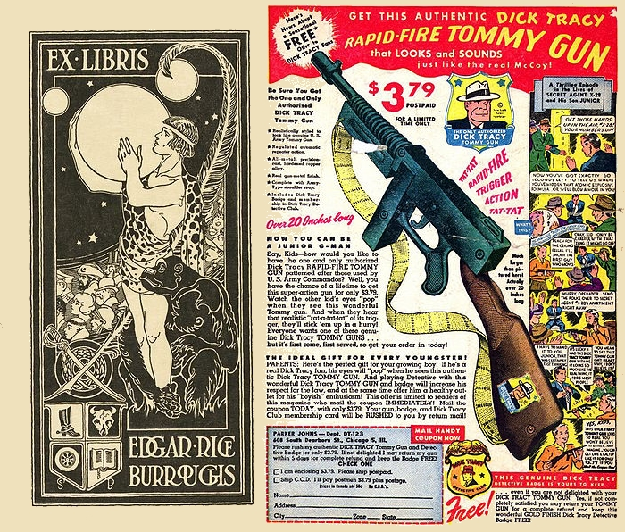 Tarzan and Dick Tracy